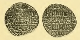 Al-Ashraf Khalil dinar